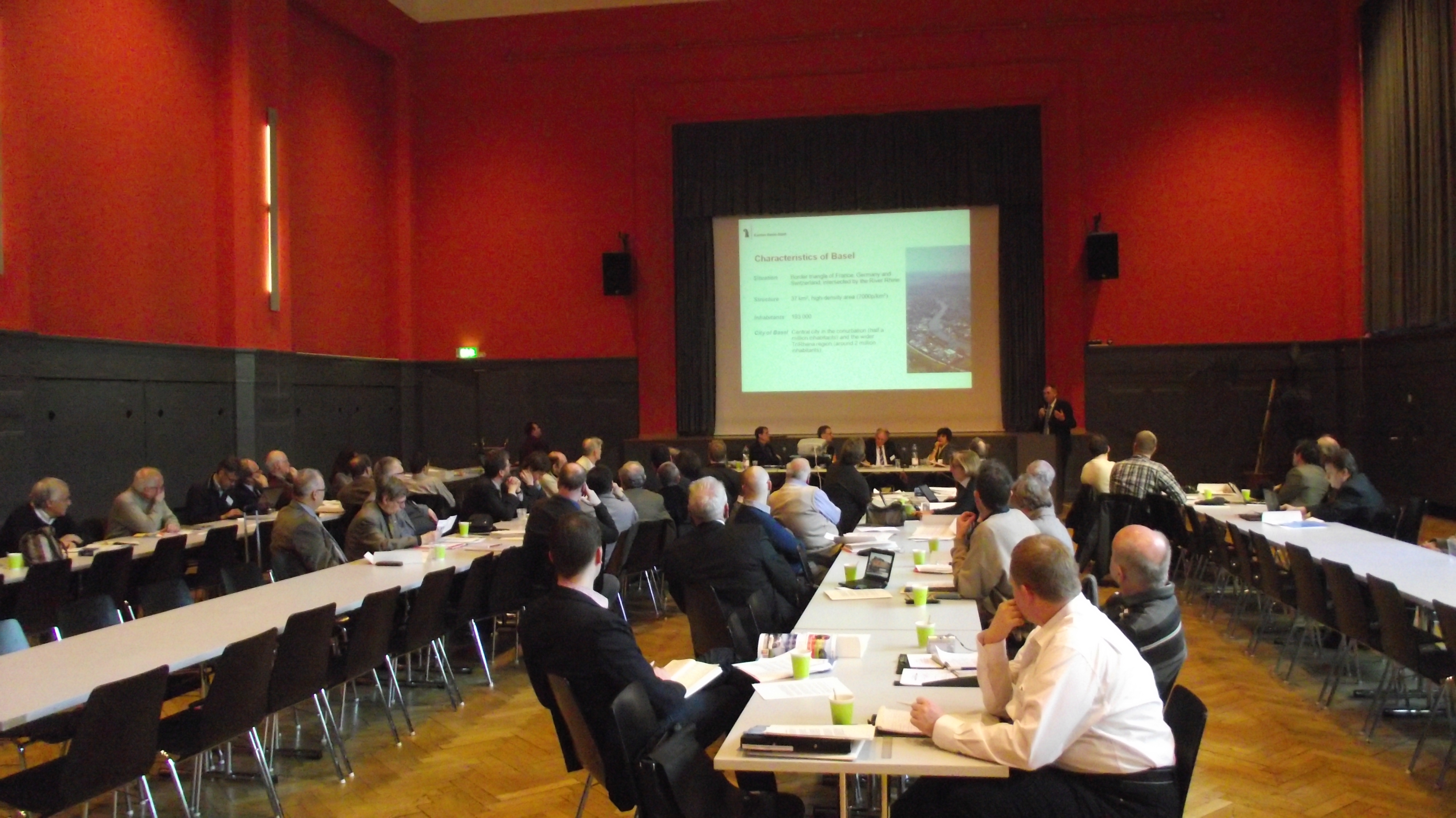 EPF conference in Basel